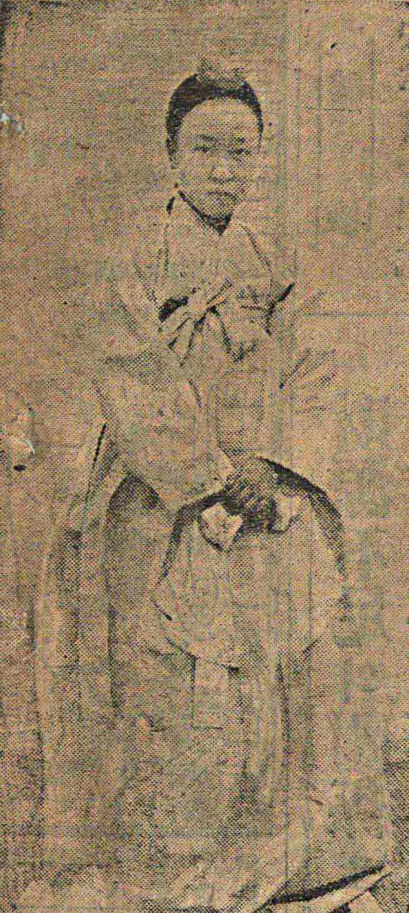 Princess Deokhye